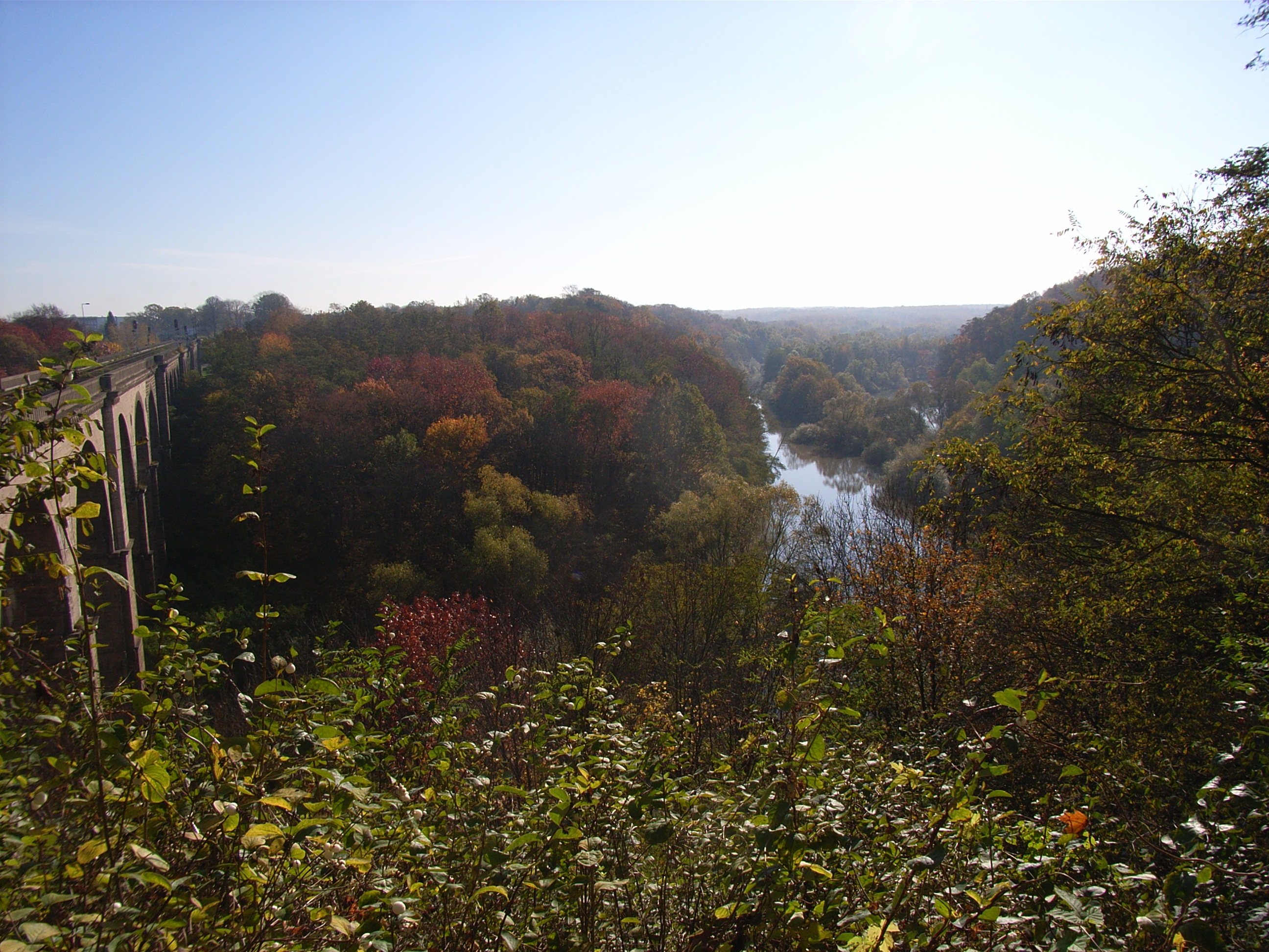 view of the valley of the river Neiße in Görlitz (Saxony), on the left viaduct to Zgorzelec Poland